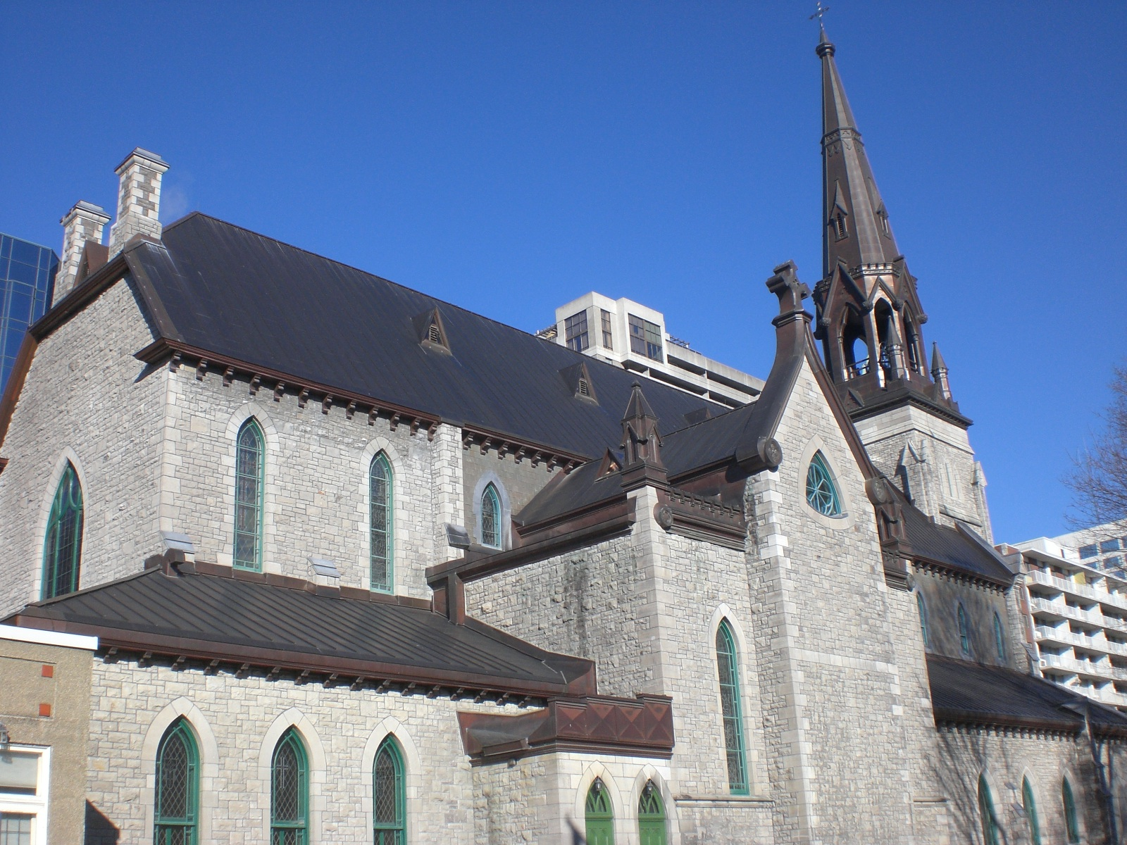 View of St. Patrick's Basilica, Ottawa